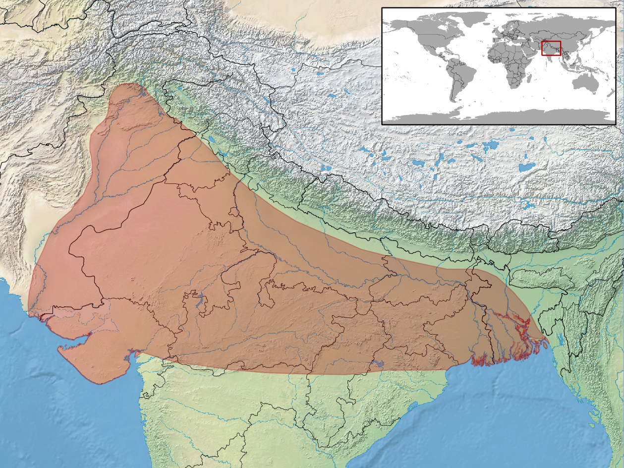 geographic distribution of Brachysaura minor (Native: Bangladesh; India; Pakistan)